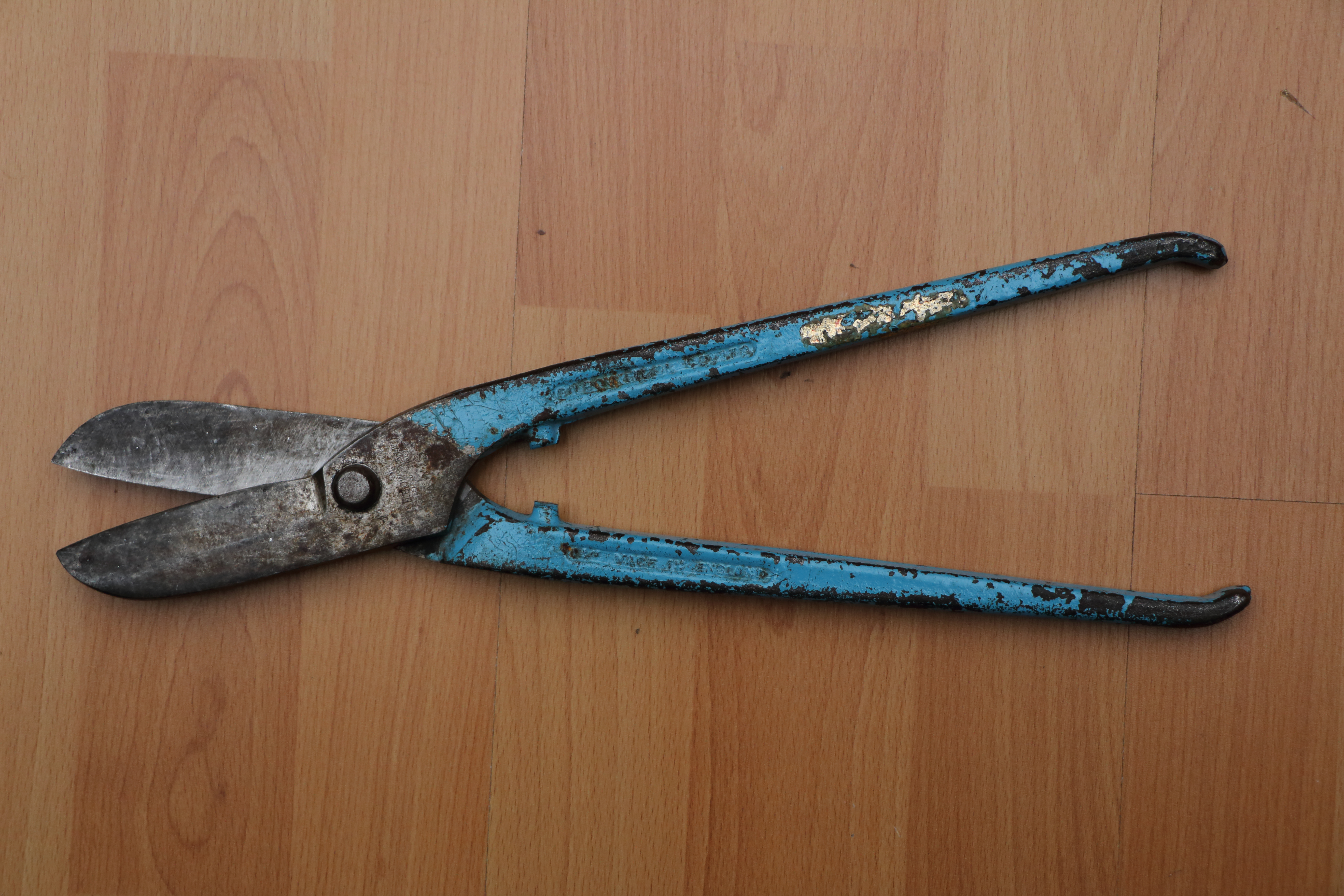 Tin snips used for shearing metal, manufactured by Gilbow of England. This pair of snips are 12" (approx 300mm) long.